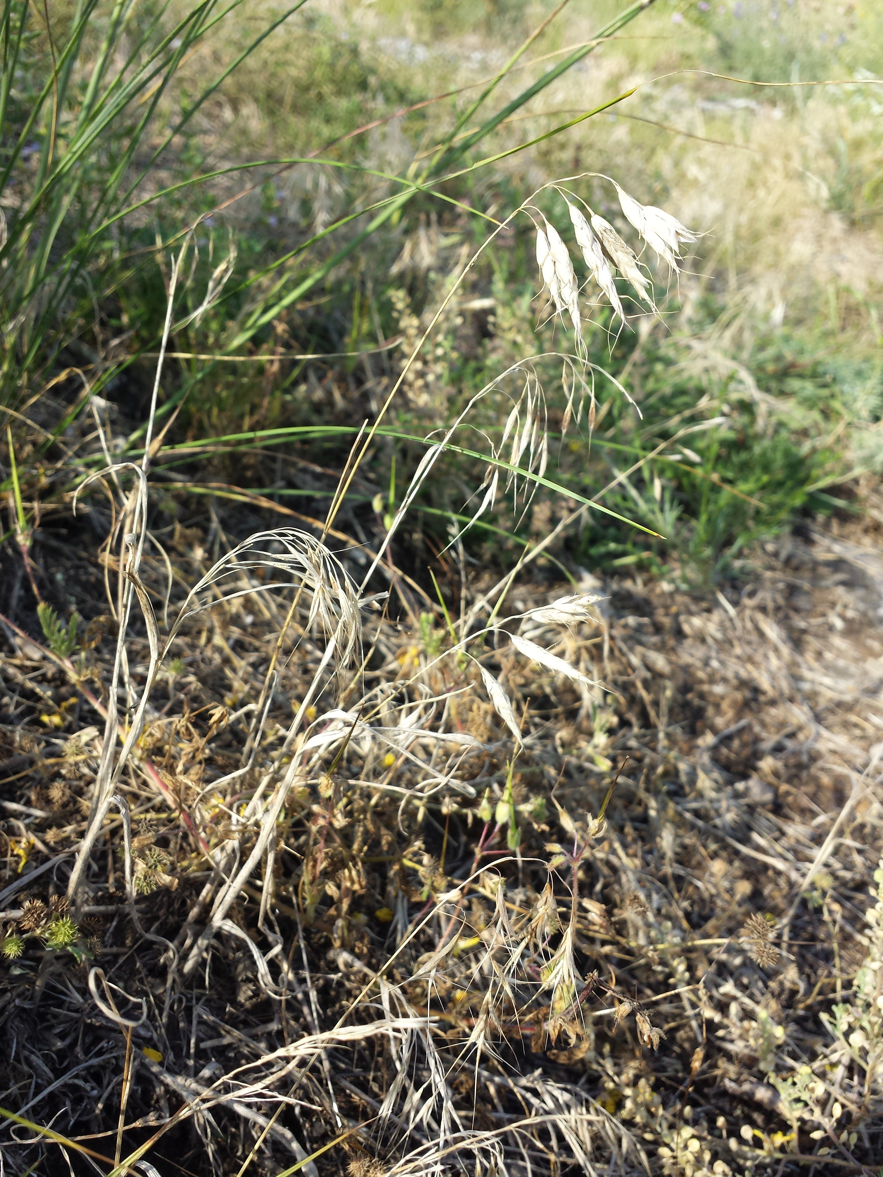 Habitus Taxonym: Bromus squarrosus ss Fischer et al. EfÖLS 2008 ISBN 978-3-85474-187-9 Location: Braunsberg next to Hainburg, district Bruck an der Leitha, Lower Austria - ca. 330 m a.s.l. Habitat: dry-grassland